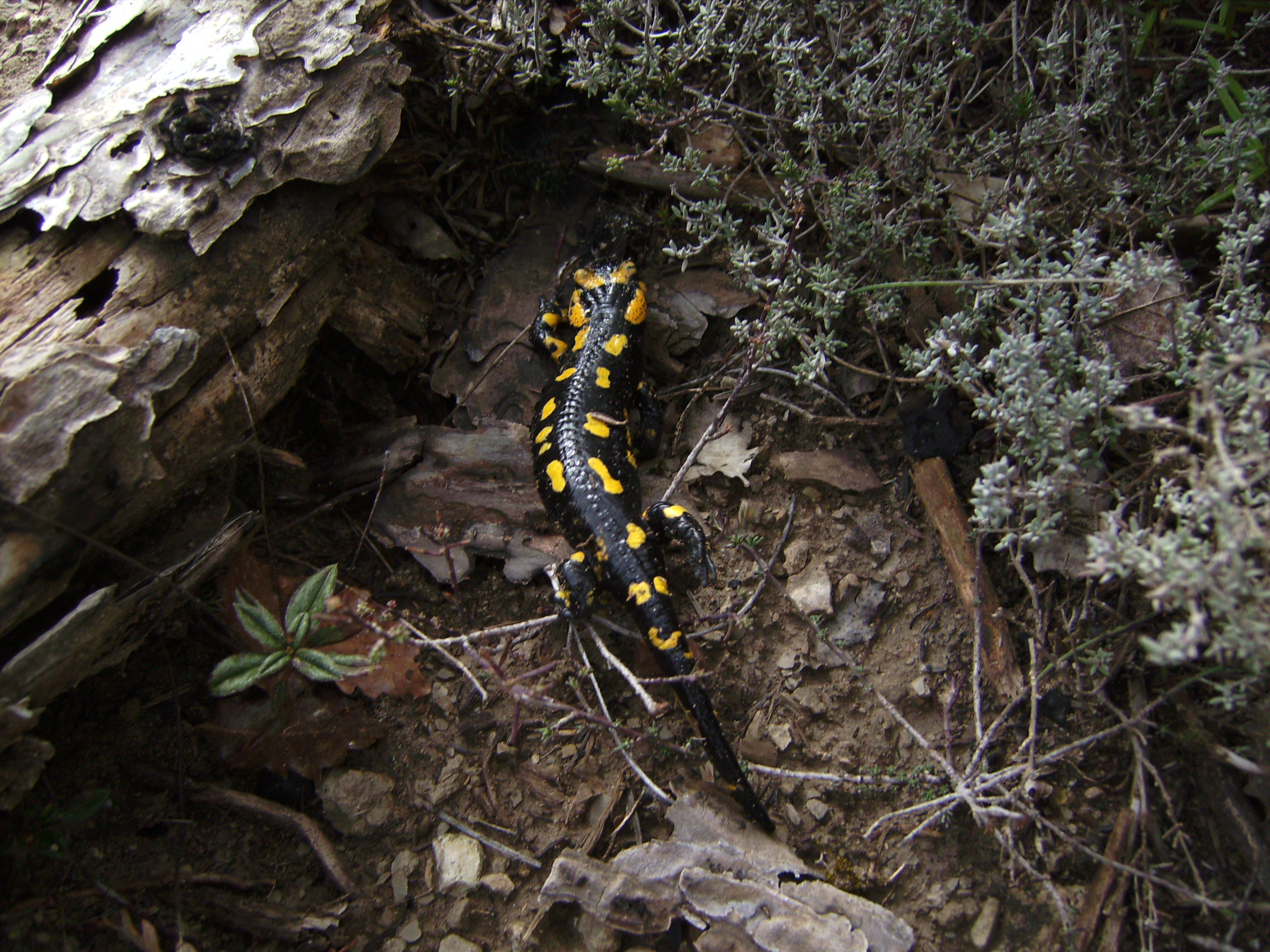 Fire salamander (Salamandra salamandra) in a garrigue vegetation in a rainy day, between, at right Dorycnium pentaphyllum, at left Helianthemum sp, Castelltallat, Catalonia